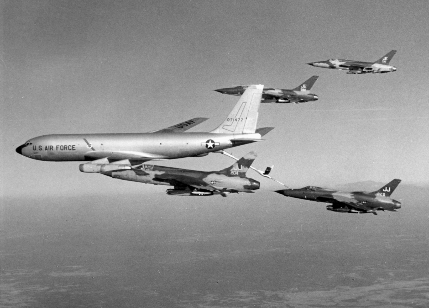 A U.S. Air Force Boeing KC-135A-BN Stratotanker (s/n 57-1477) refuels four Republic F-105D Thunderchief fighters from the 388th Tactical Fighter Wing en route ro North Vietnam. Two F-105Ds are from the 34th Tactical Fighter Squadron (tail code "JJ"), and two are from the 44th TFS ("JE").